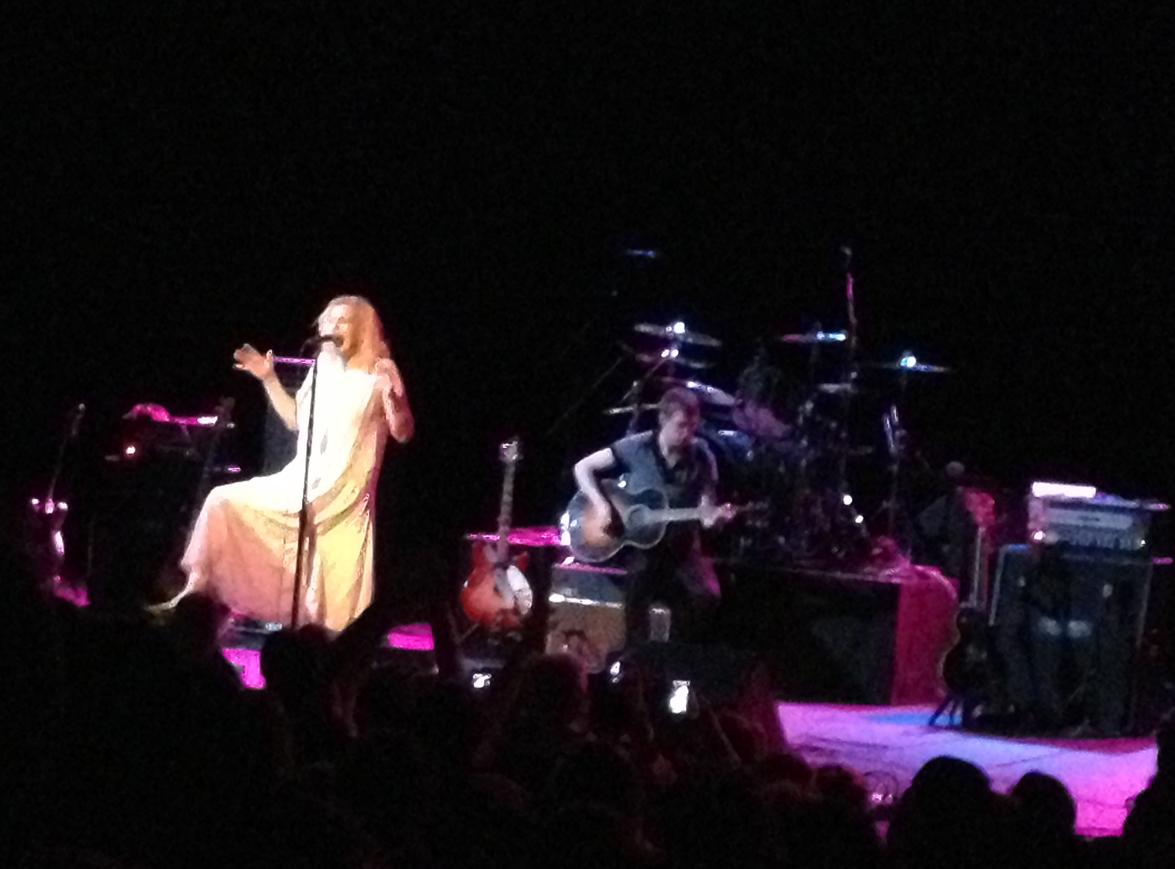 Courtney Love photographed live at the Moore Theatre on July 23, 2013, in Seattle, Washington.